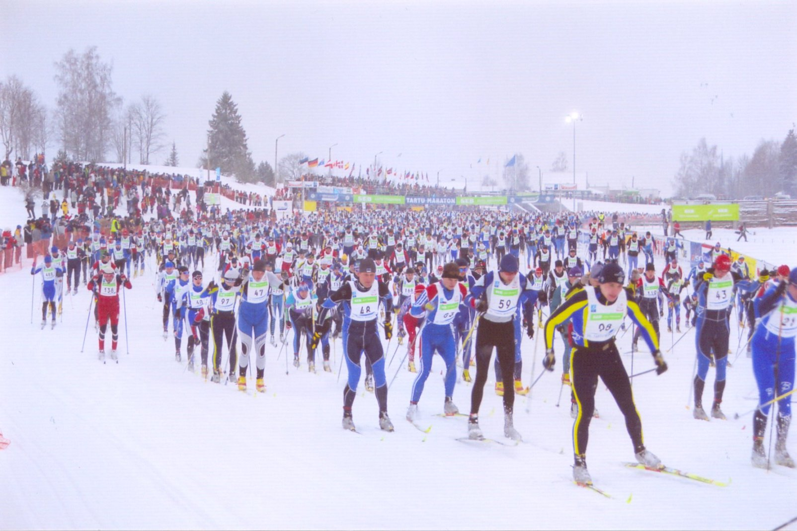 Tartu Marathon 2006, Estonia